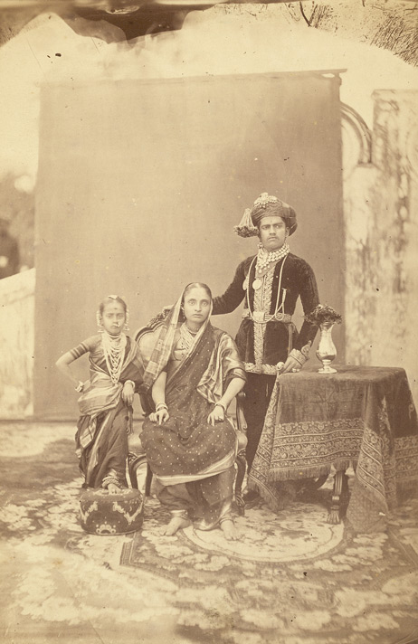 This group portrait shows Her Highness the Maharani Jamnabai (the widowed consort of Khande Rao who adopted Sayaji Rao) sitting on a chair with the Gaekwar behind and to her left and Tarabai (possibly the Gaekwar's sister) standing at her right side